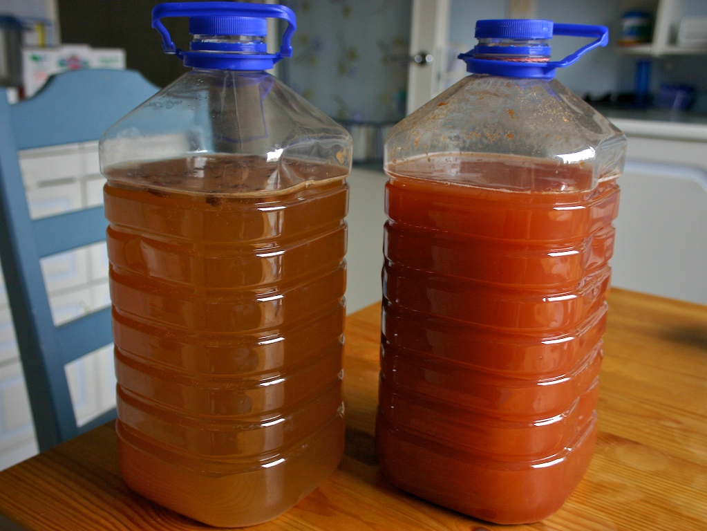 Article about Sima (Finnish Mead) found i.e. (in "History" section) Original sima (on the left) and Rhubarb sima Not yet ready, but will be good around May 1.